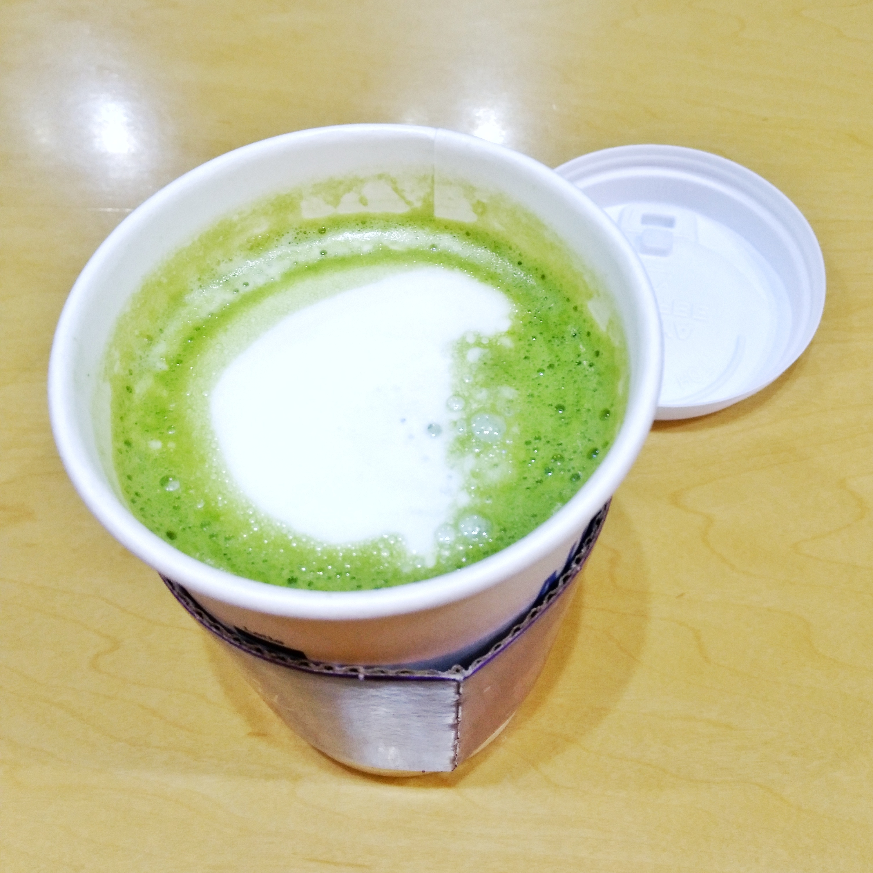 Green tea latte made using malcha (powdered green tea)